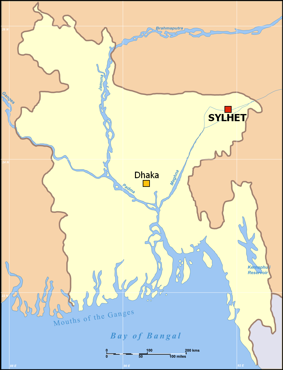 Sreemangal City map